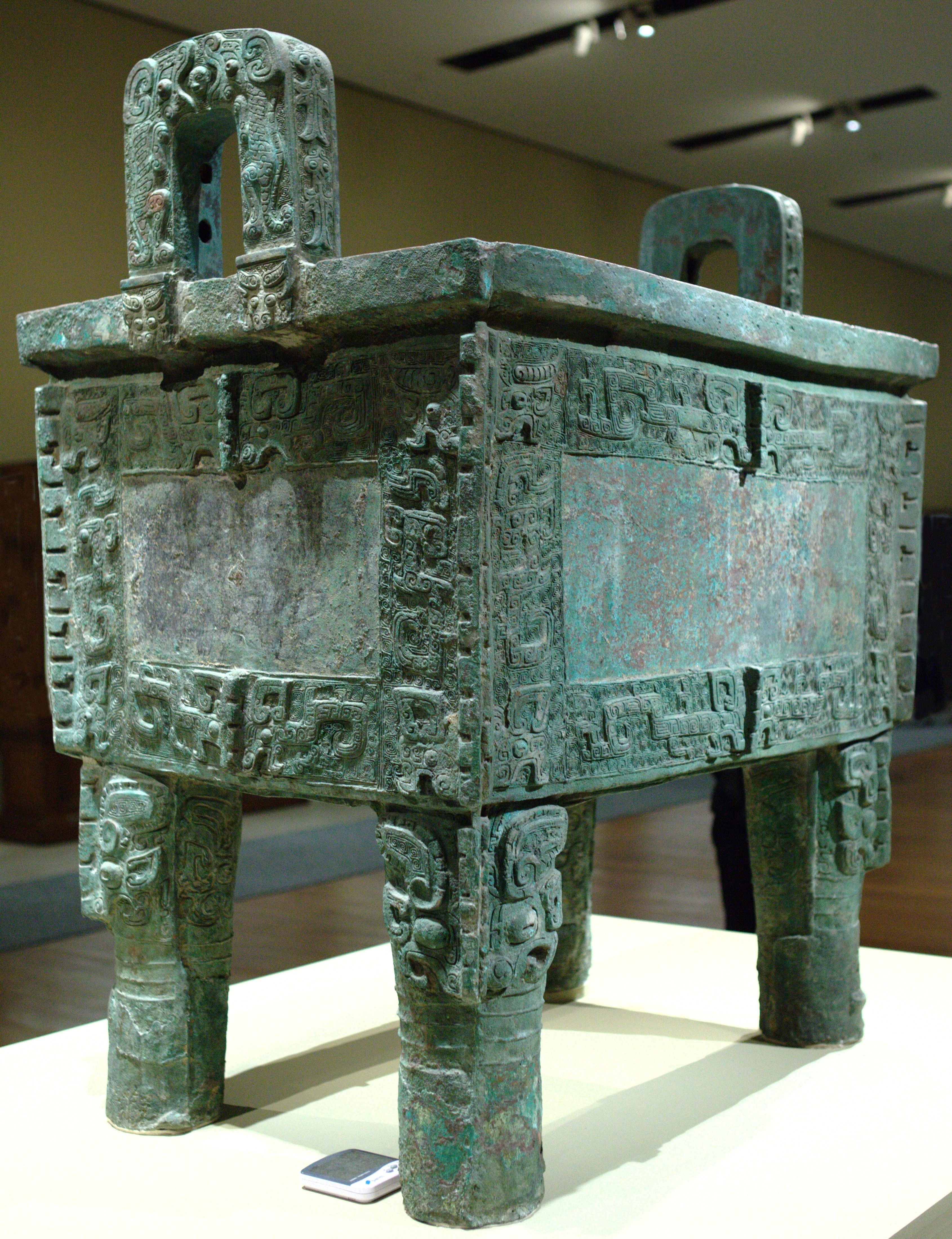 Houmuwu Ding, also known as Simuwu Ding (wine vessel) is the heaviest piece of bronze work found in China so far. It was made in the late Shang Dynasty at Anyang (c. 1300 – 1046 BC). Height 133 cm, width 112 cm, depth 79.2 cm, weight 875 kg. This picture shows the genuine piece when it was on display at the National Museum of China.